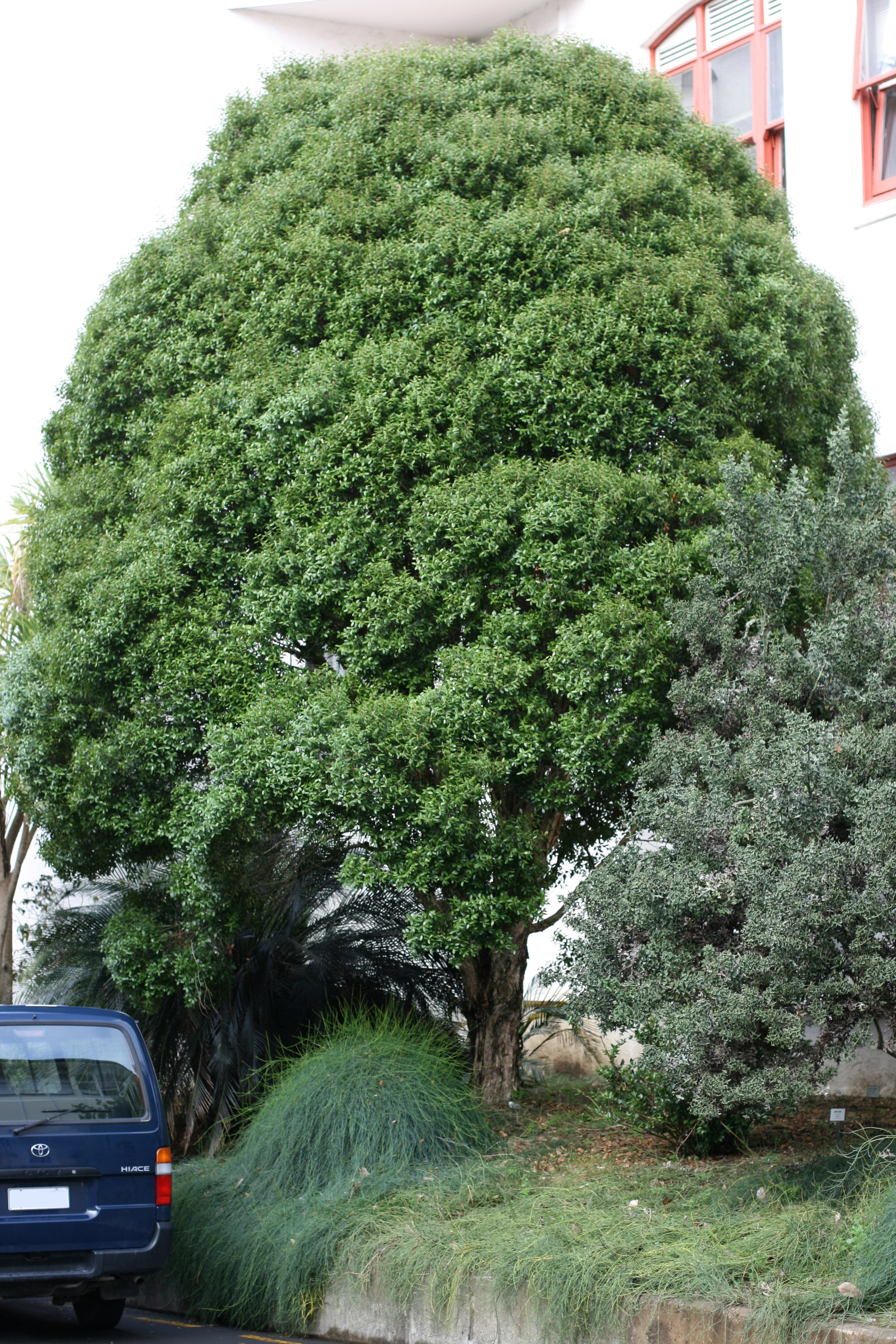 Metrosideros bartlettii. A young tree growing on the campus of the University of Auckland, Auckland, New Zealand.